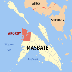 Map of Masbate showing the location of Aroroy